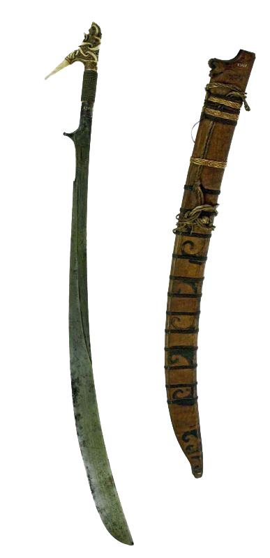 Sword with hilt of bone and sheath